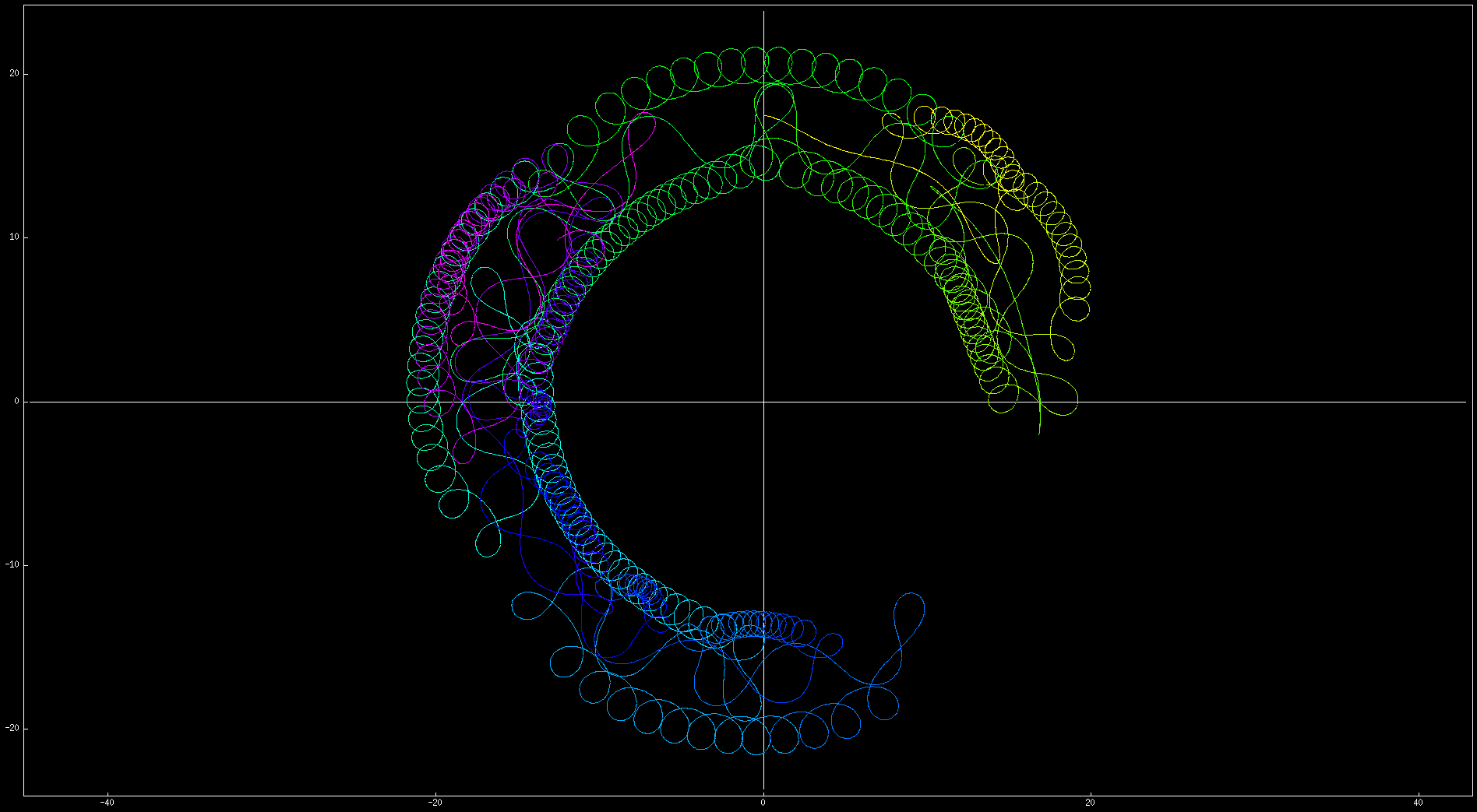 Sample particle trajectory that begins as cyclotron motion, transitions to betatron motion, and ends as cyclotron motion.